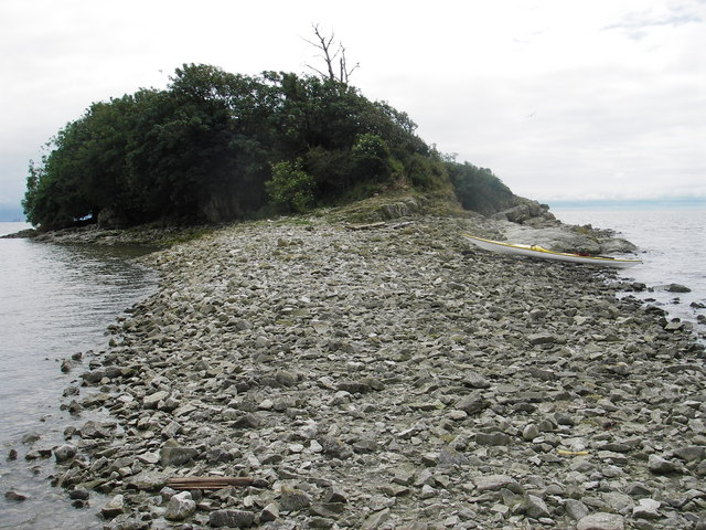 Chapel Island Along the shingle "beach" to Chapel Island. The ruined Chapel is now largely hidden by the trees. You can walk to this island at low tide (watch out for the channels and the quicksands), this picture was however taken only minutes after a high tide.